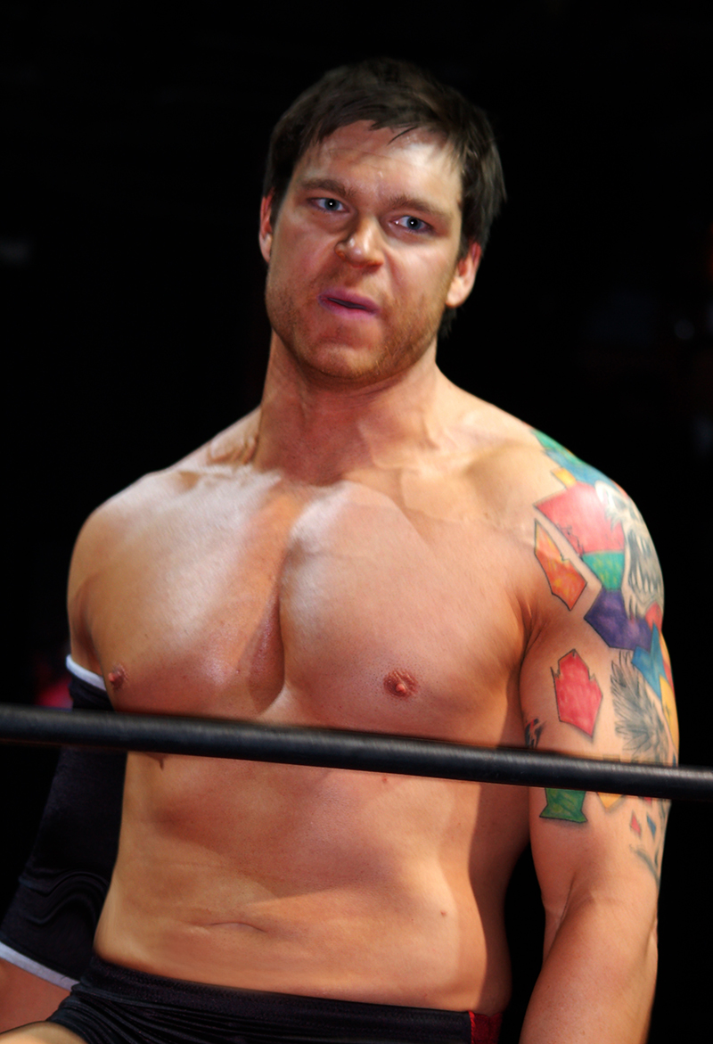 Photo I took of Jay Bradley on 2/17/2012 at a ResistancePro Wrestling event held in the Excalibur nightclub. (Event name: RPW Vicious Circle)